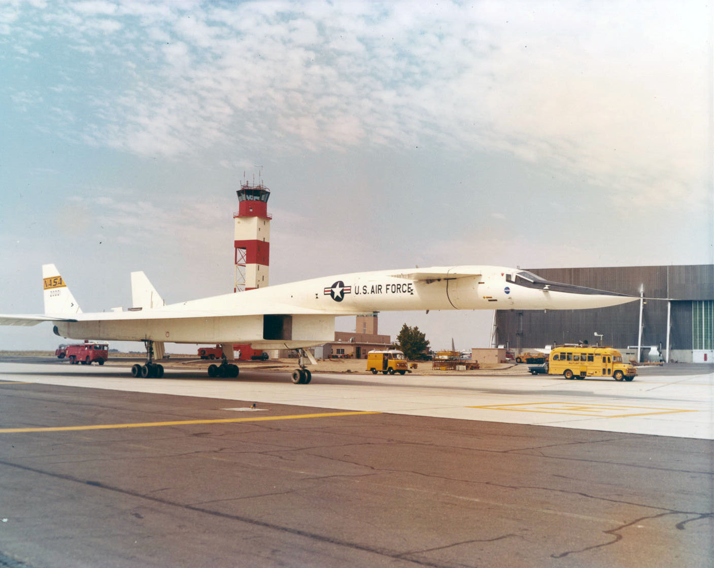 North American XB-70A Valkyrie